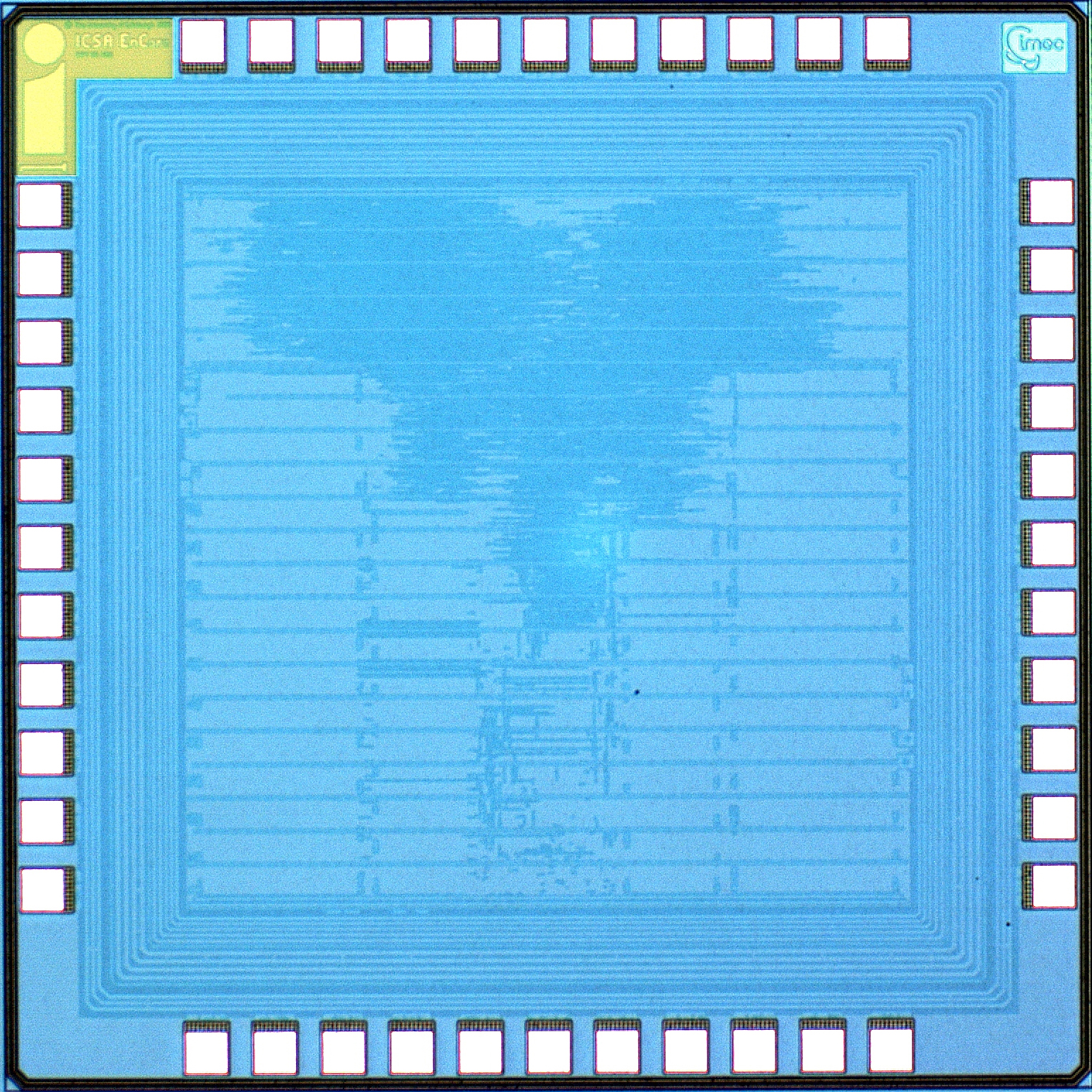 Photomicrograph picture of EnCore Processor codename Calton